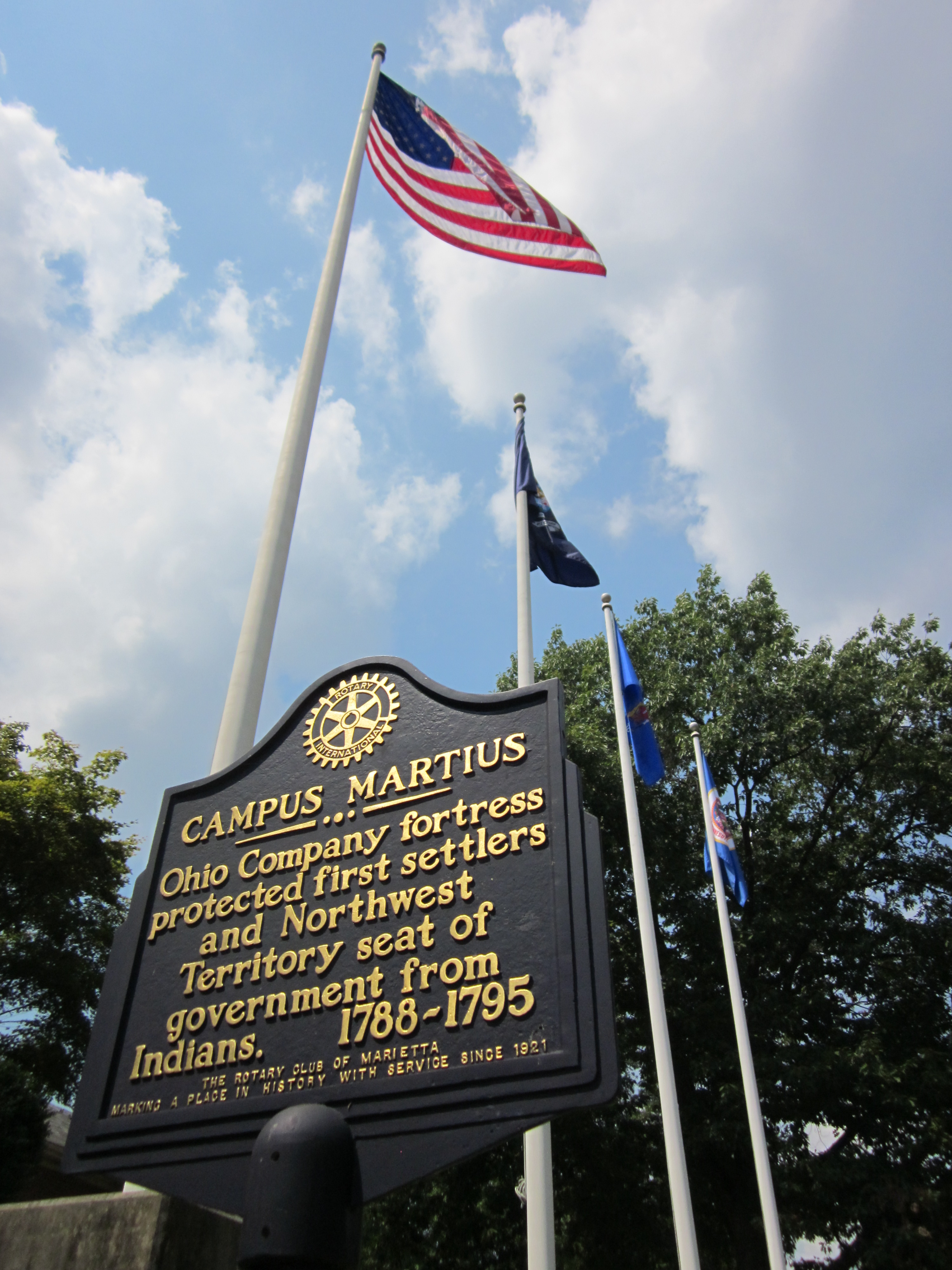 Campus Martius plaque at Marietta, Ohio, September 2012. I took this photo, and I release to the public domain. ColWilliam (talk) 17:30, 13 September 2012 (UTC)